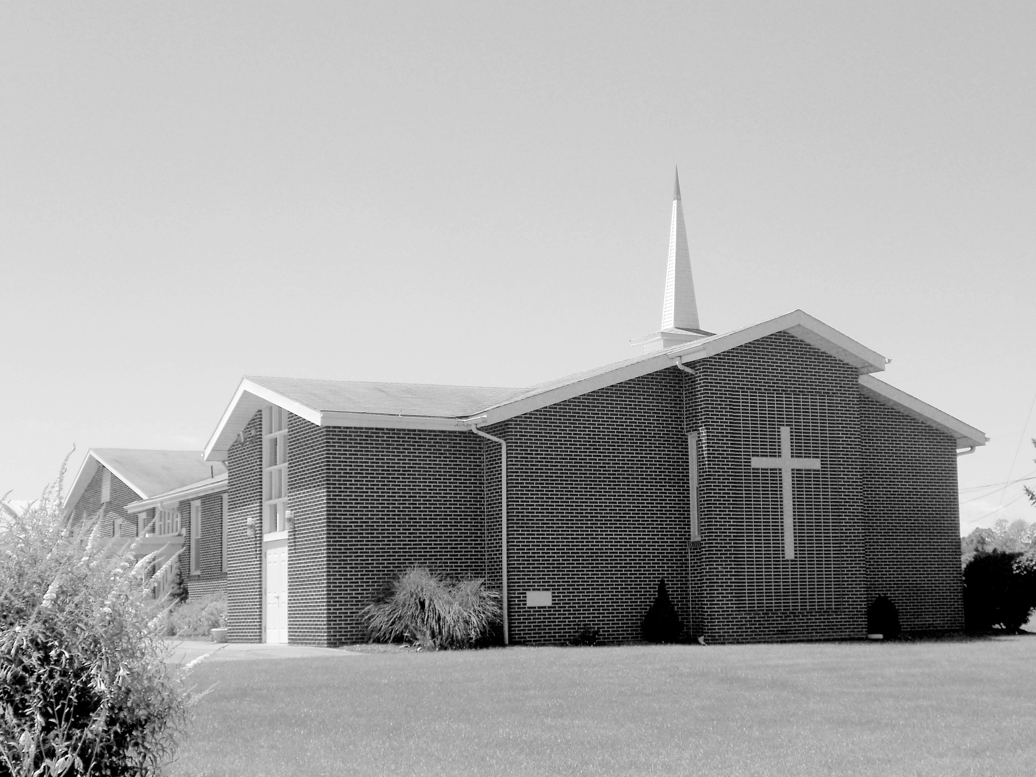 Green Spring First Church of God in North Newton Township, Cumberland County, Pennsylvania - about halfway between Newville and Newburg, PA